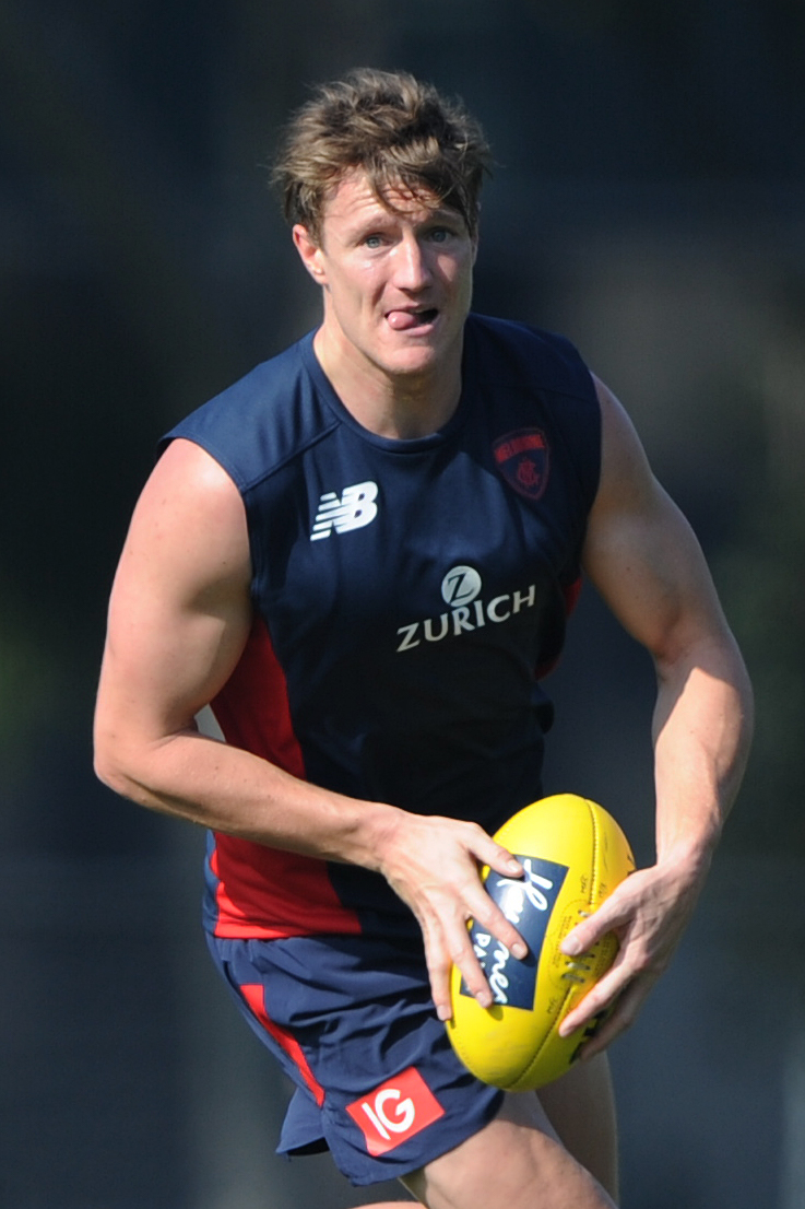 Aaron vandenBerg during Melbourne training on 21 April 2018 at Gosch's Paddock in Melbourne, Victoria.